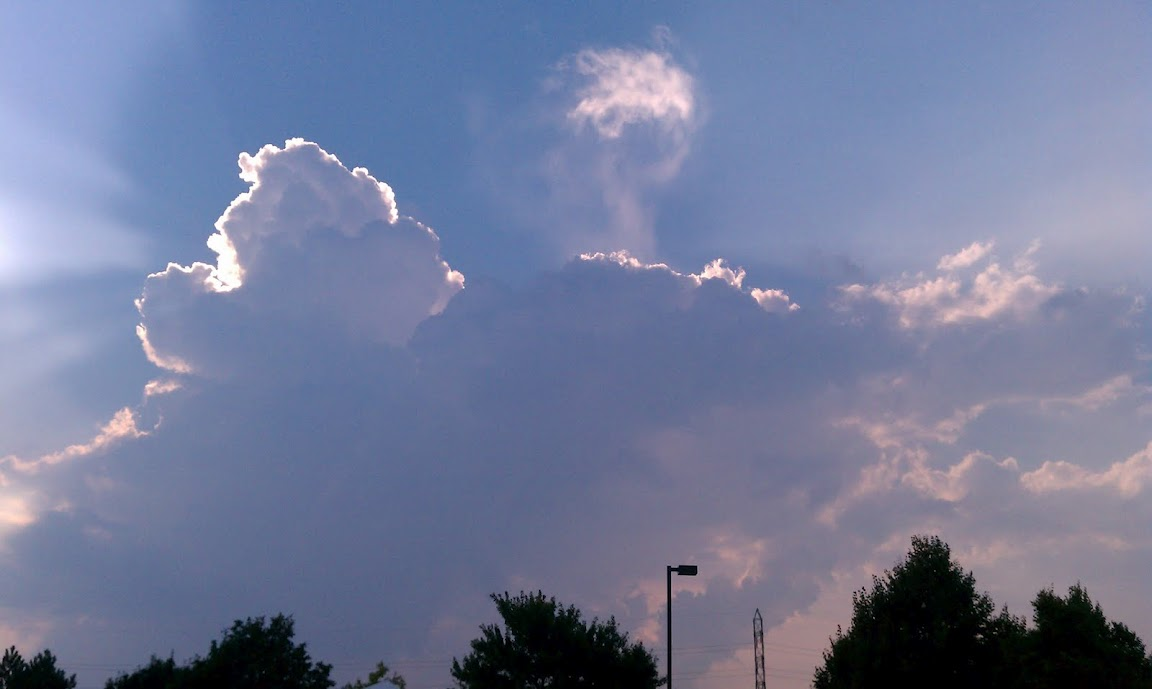 Storm clouds approaching EMU's Rynearson Stadium from the west. The storms eventually forced the postponement of the EMU-Howard football game from September 3 to September 4, 2011.